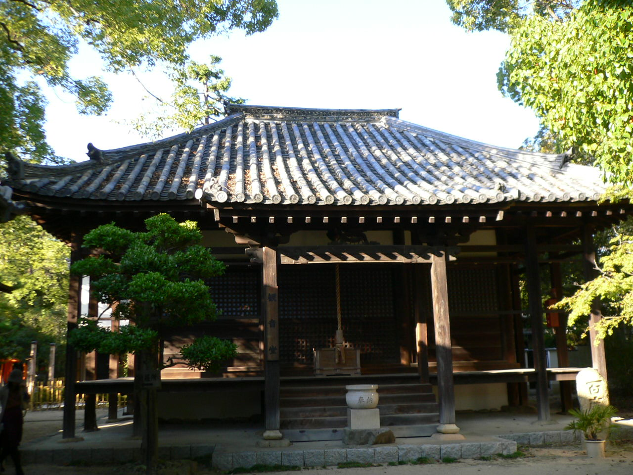 Kon'youji Kan'nondou (Temple in ItamiHyōgo Prefecture, Japan